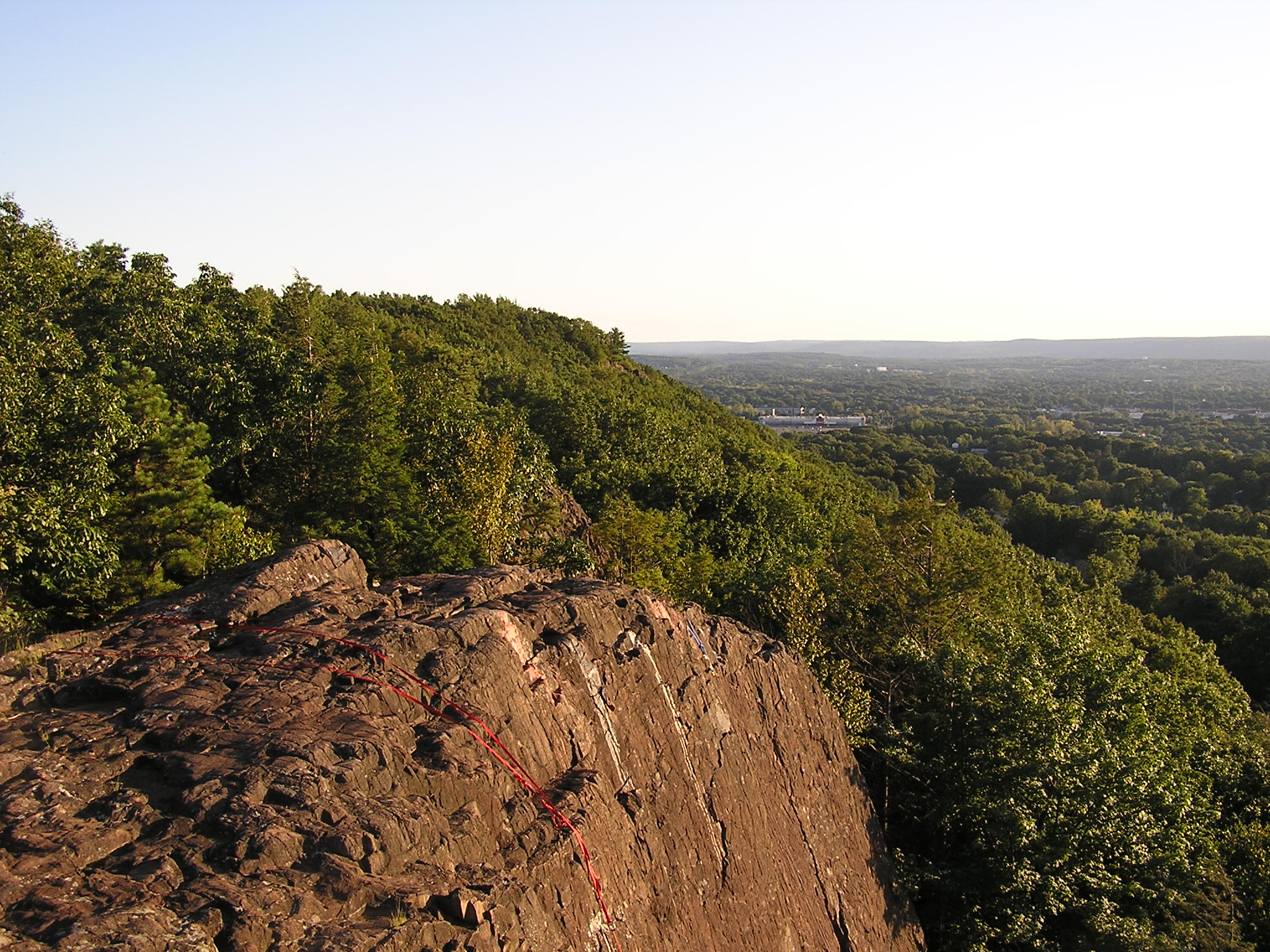 Pinnacle Rock (Connecticut)